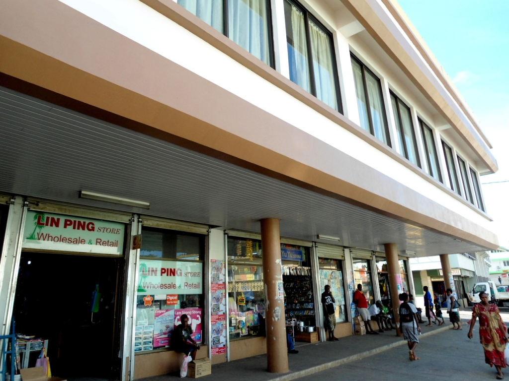 China Town